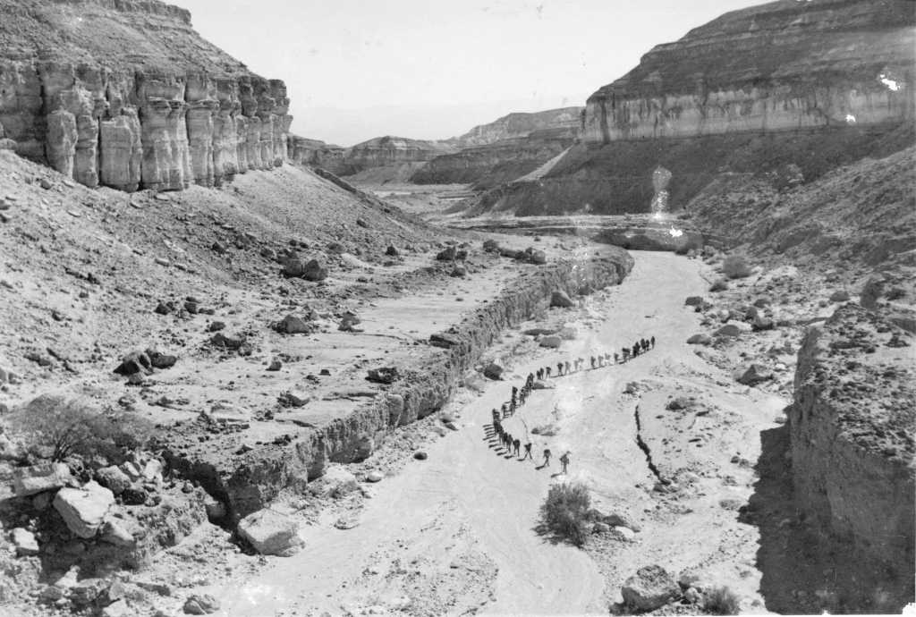 The Palmach, Geography of Israel